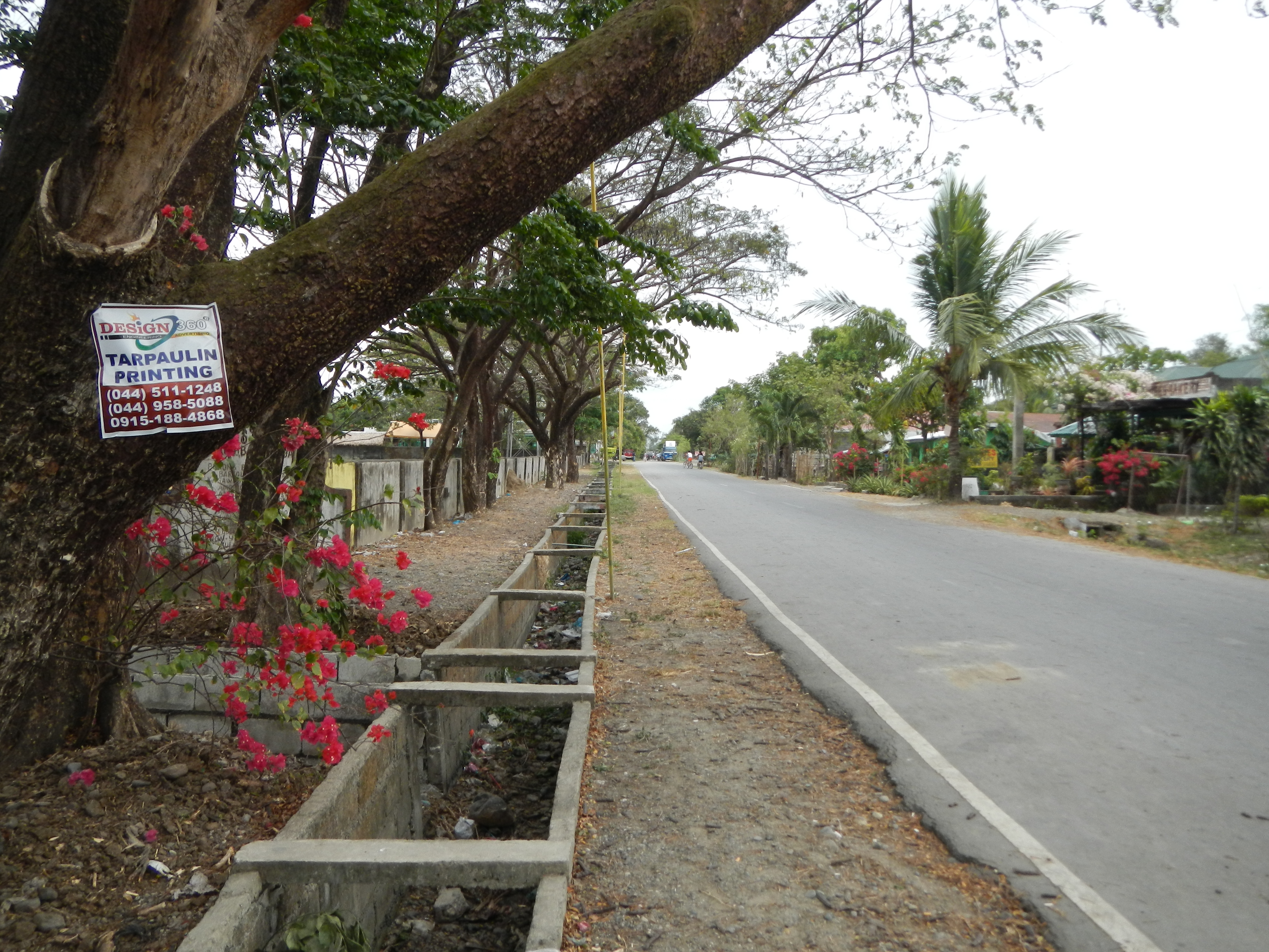 Llanera, Nueva Ecija[1] is a fourth class municipality in the province of Nueva Ecija, Philippines. According to the 2010 census, it has a population of 36,200 people.[2][3] Land Area: 114.44 km² ZIP Code: 3126 Coordinates: 15°39'44"N 120°59'30"E[4] [5]Mariano Llanera (1855-1942) of Gapan, Nueva Ecija. He was a Filipino General who fought in the provinces of Bulacan, Tarlac, Pampanga, and Nueva Ecija.